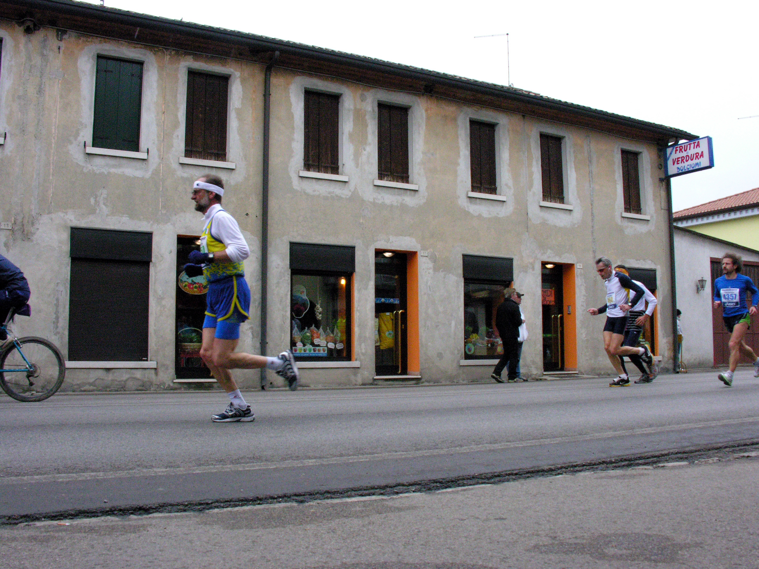 Amateur runners on the streets of the City of Treviso, taking part in the 2007 Treviso Marathon